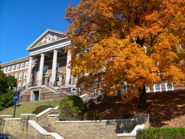 Stalnaker Hall, originally named Woman's Hall, formerly housed the West Virginia University Honors College (now moved to the new Honors Hall).